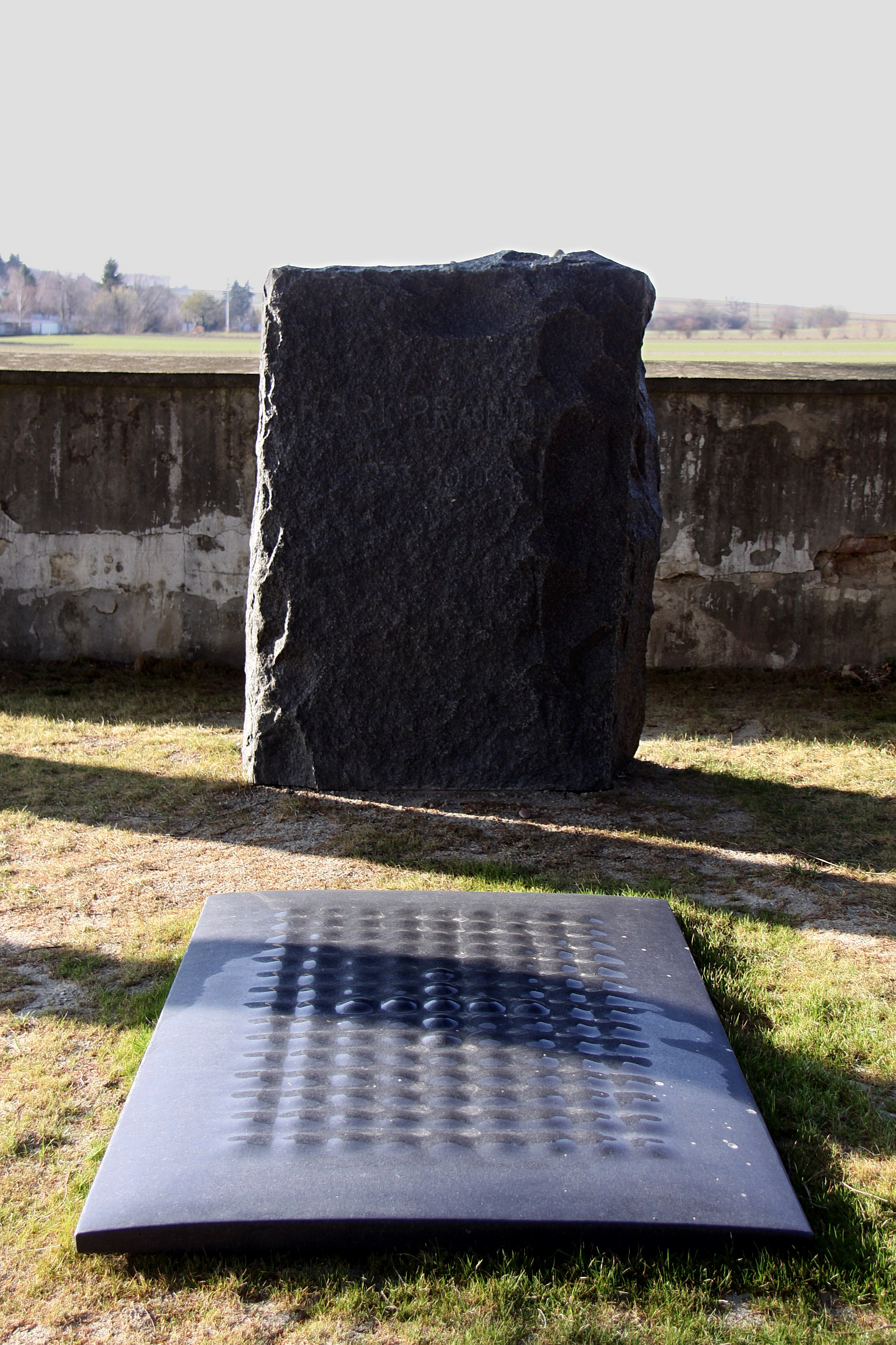 Honour grave of the sculptor Karl Prantl (* 1923-11-05, † 2010-10-08) in the cemetry of Pöttsching. Object location47° 48′ 29.11″ N, 16° 22′ 07.71″ E